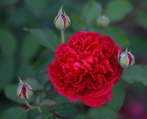 Rosa 'William Shakespeare 2000'. Picture taken in Vladimir Oblast, Russia.